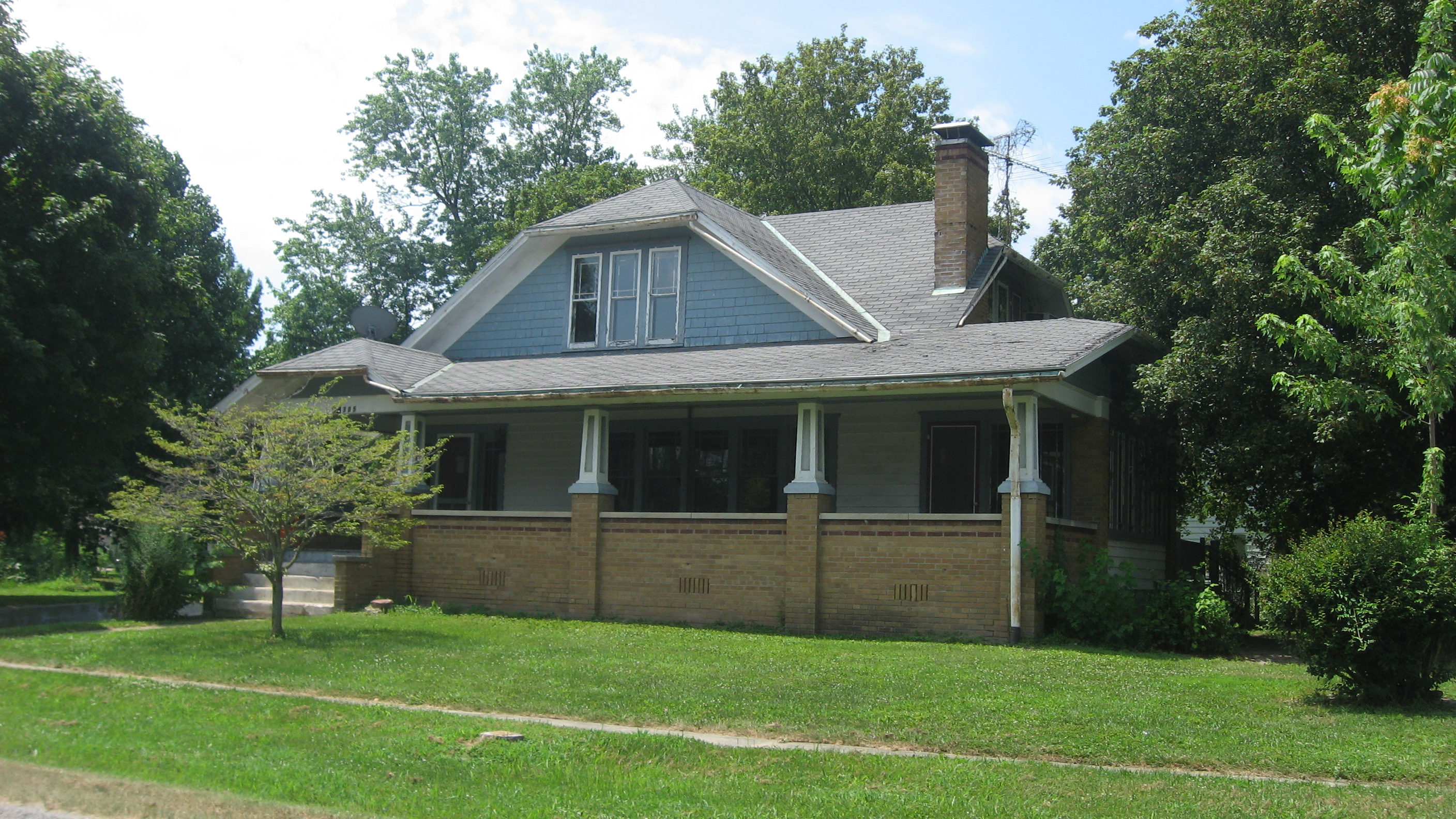 Front of the Floyd and Glenora Dycus House, located at 305 S. Second Street in Brownstown, Illinois, United States. Built in 1933, it is listed on the National Register of Historic Places.